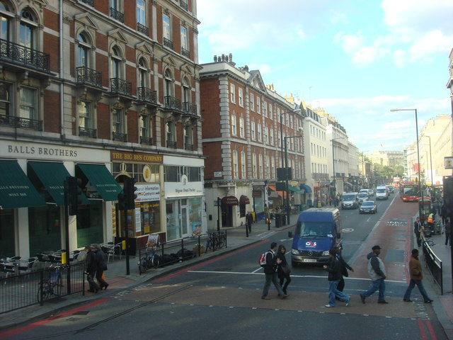 A3214 Buckingham Palace Road